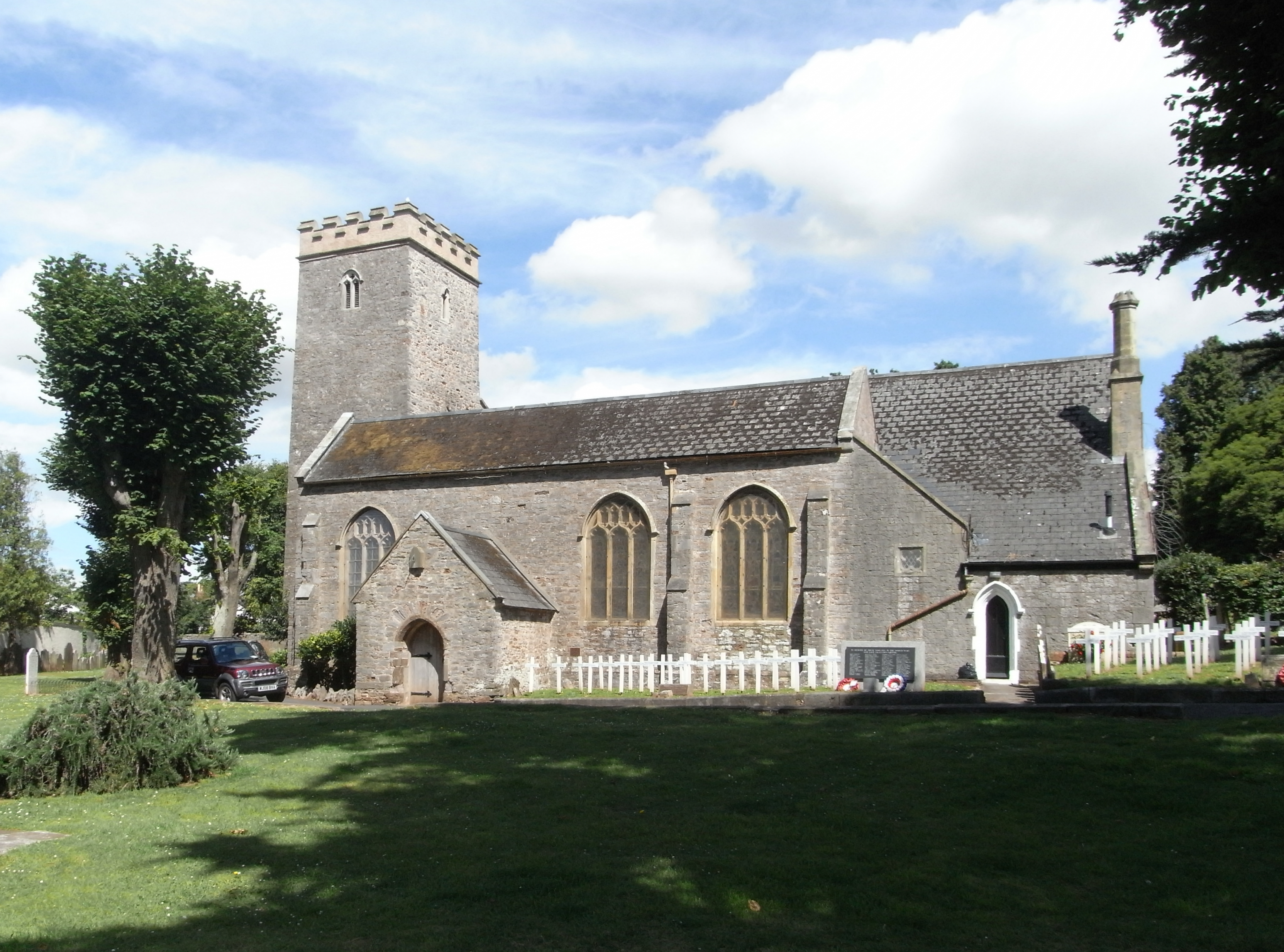 St Saviour's Church, Tor Mohun, Torquay. View from south-east. The mediaeval parish church of Tor Mohun, the area now covered by the modern town of Torquay. Today (since 1972) used as St Andrew's Greek Orthodox Church, Torquay.